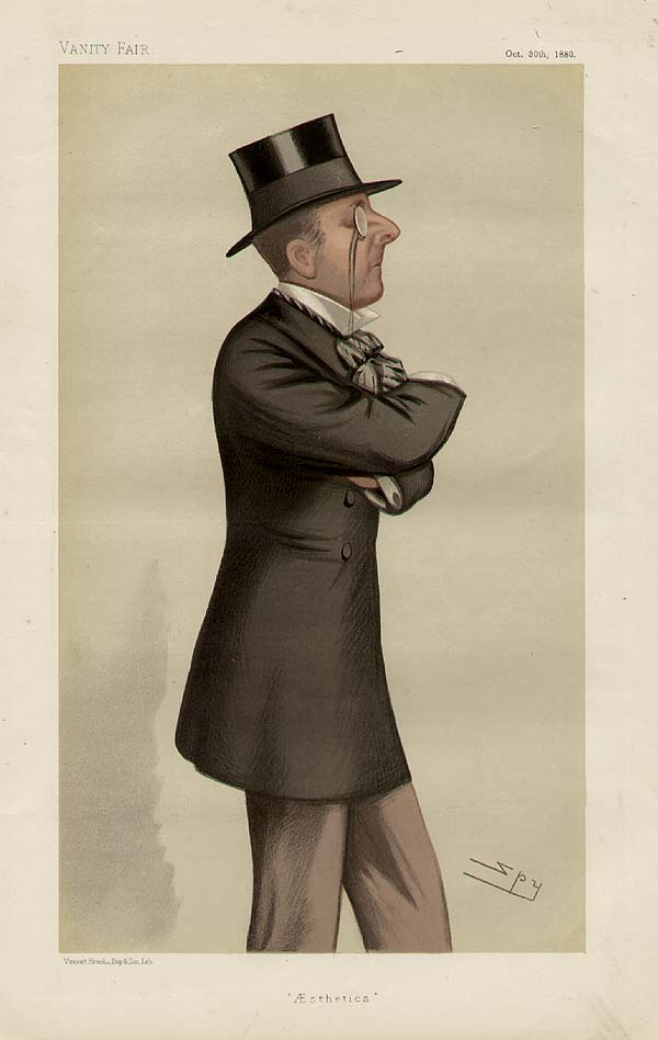 Statesmen No.345: Caricature of The Hon PS Wyndham MP. Caption reads: "Æsthetics"